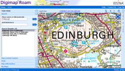 A screen shot of the Digimap Roam service showing a map of Edinburgh.